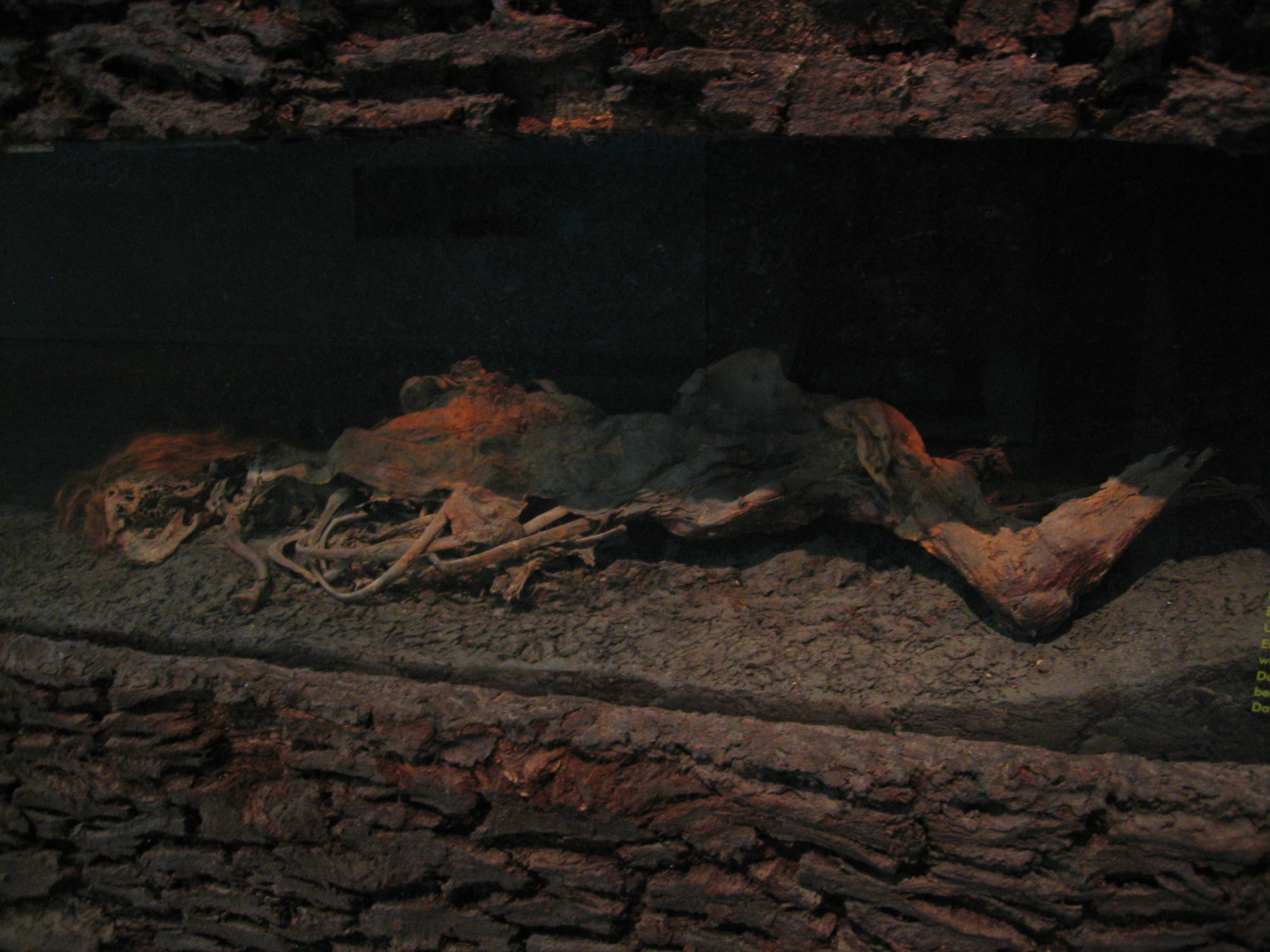 Iron age bog body Mann of Jührdenerfeld (also called Bockhornerfeld Man), of Wesermarsch, Lower Saxony, at Landesmuseum für Natur und Mensch, Oldenburg, Germany